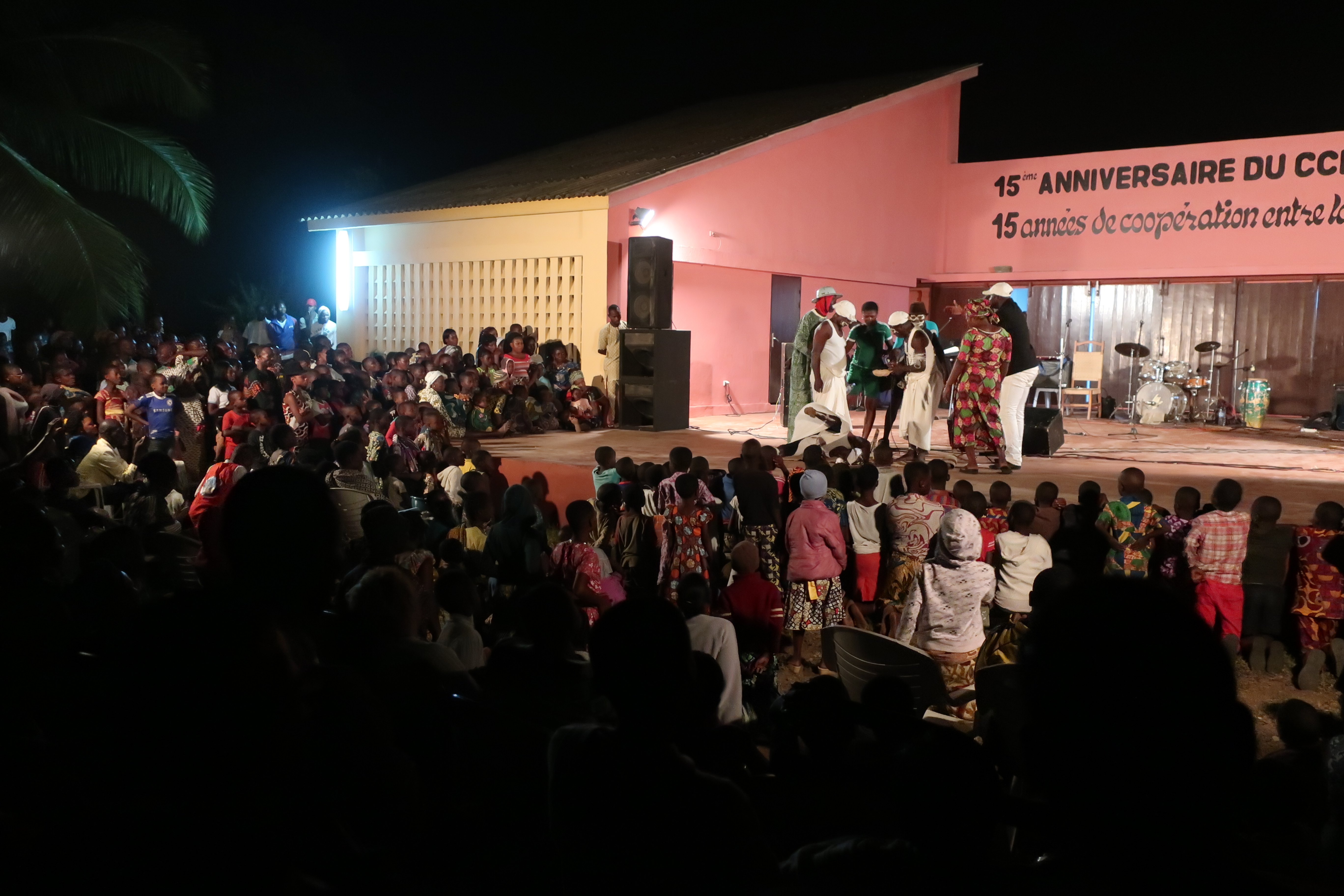 Concert performance and local audience in Finnish African Cultural Center Villa Karo Grand-Popo Benin in January 2018